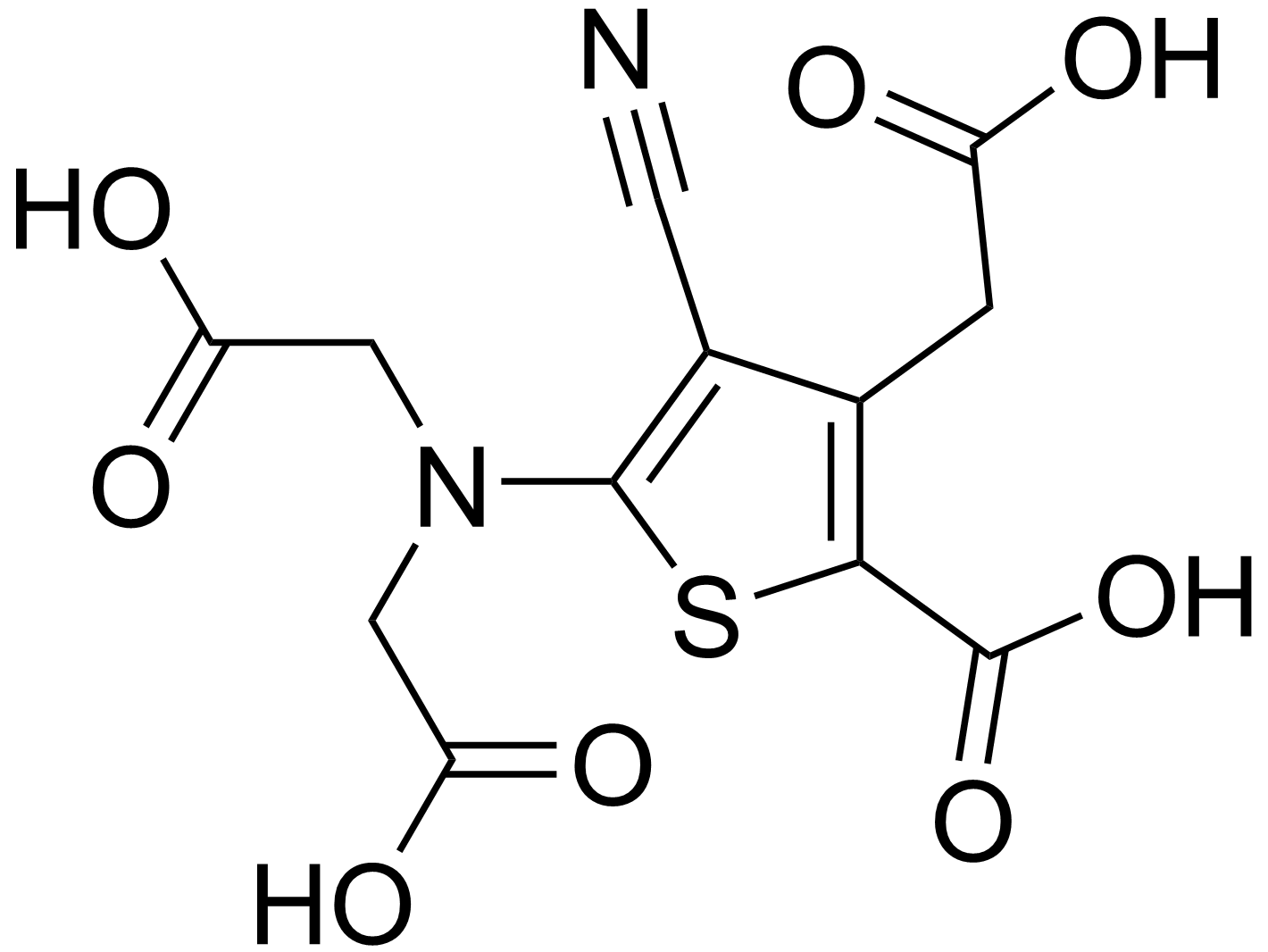 chemical structure of ranelic acid